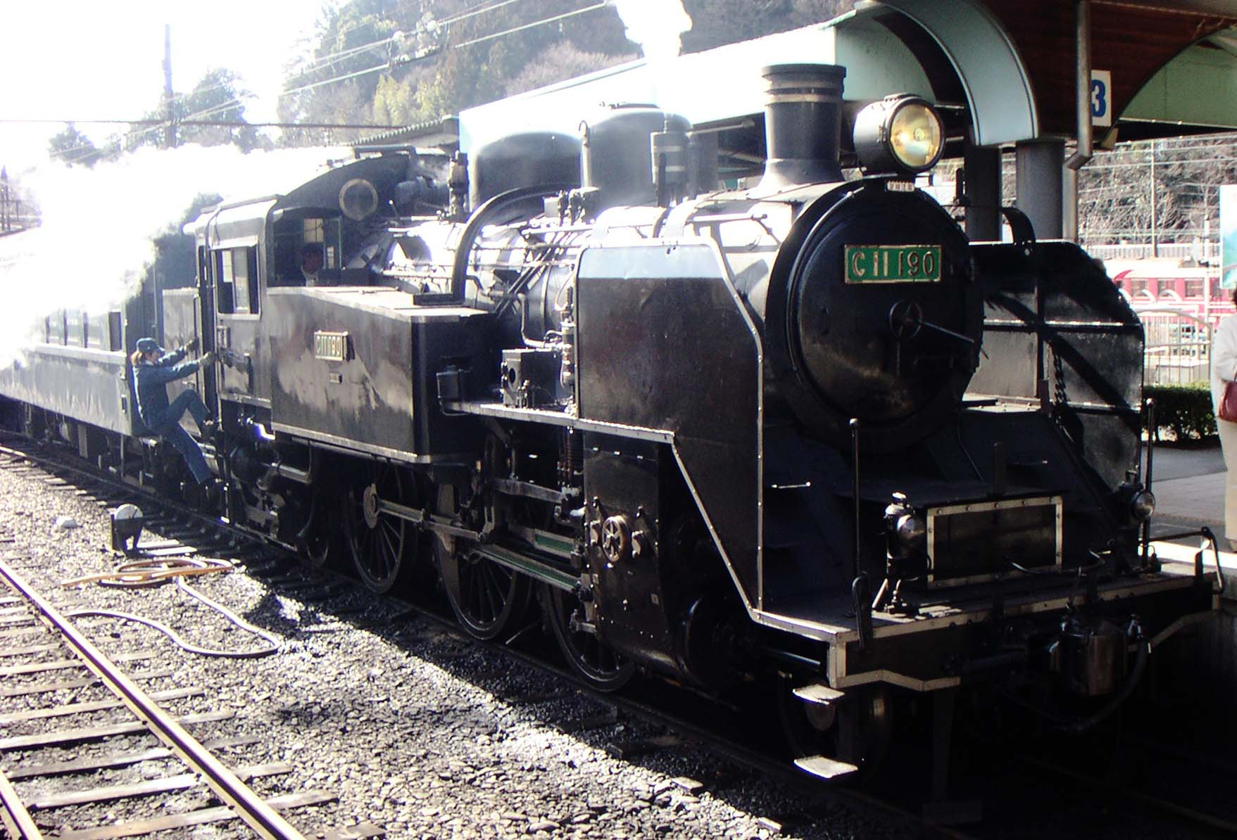 C11 190, a steam locomotive of Japan, Oigawa Railways. Senzu Station, Shizuoka, Japan.